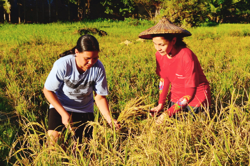 Filipina Salakot farmer, using the salakot as protection from the sun